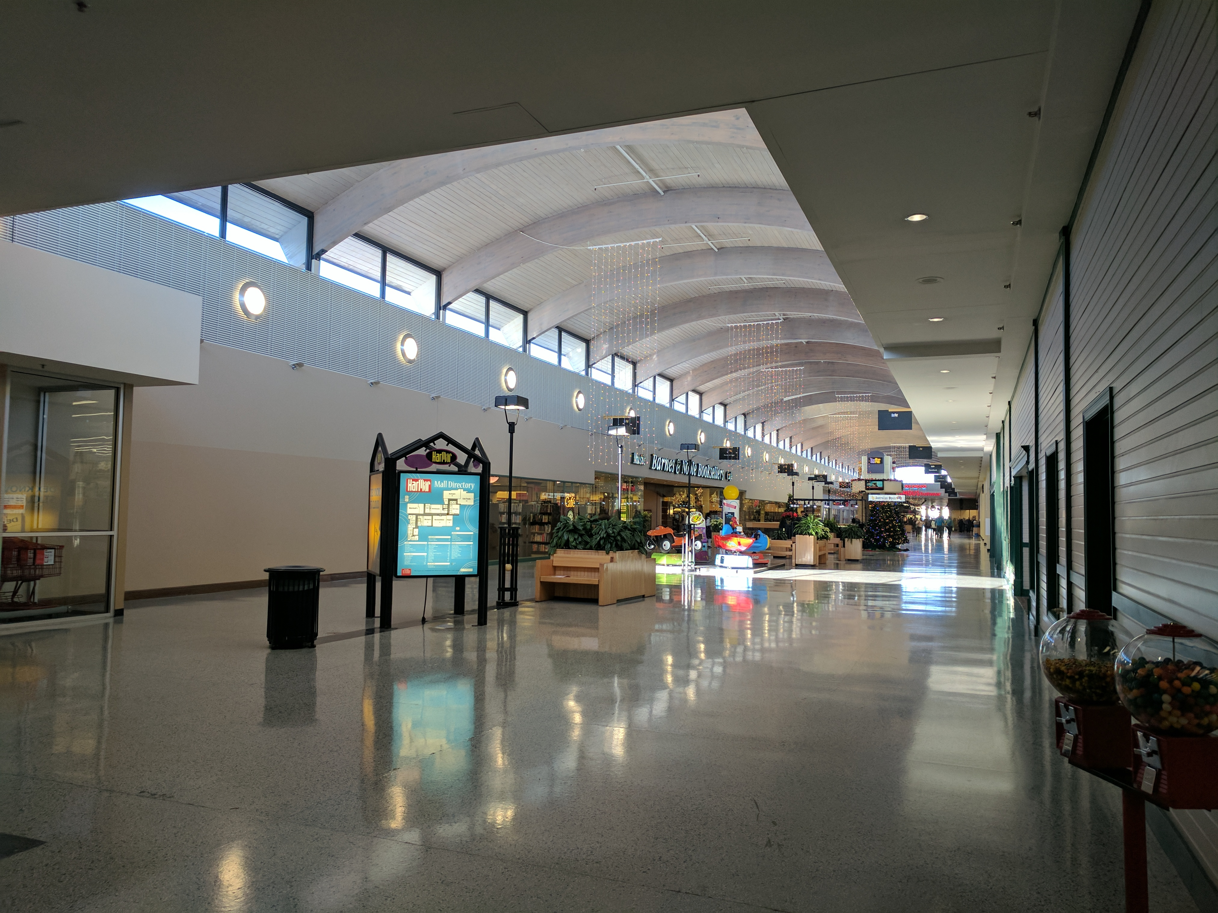 Interior picture of the Har Mar Mall in Roseville, Minnesota